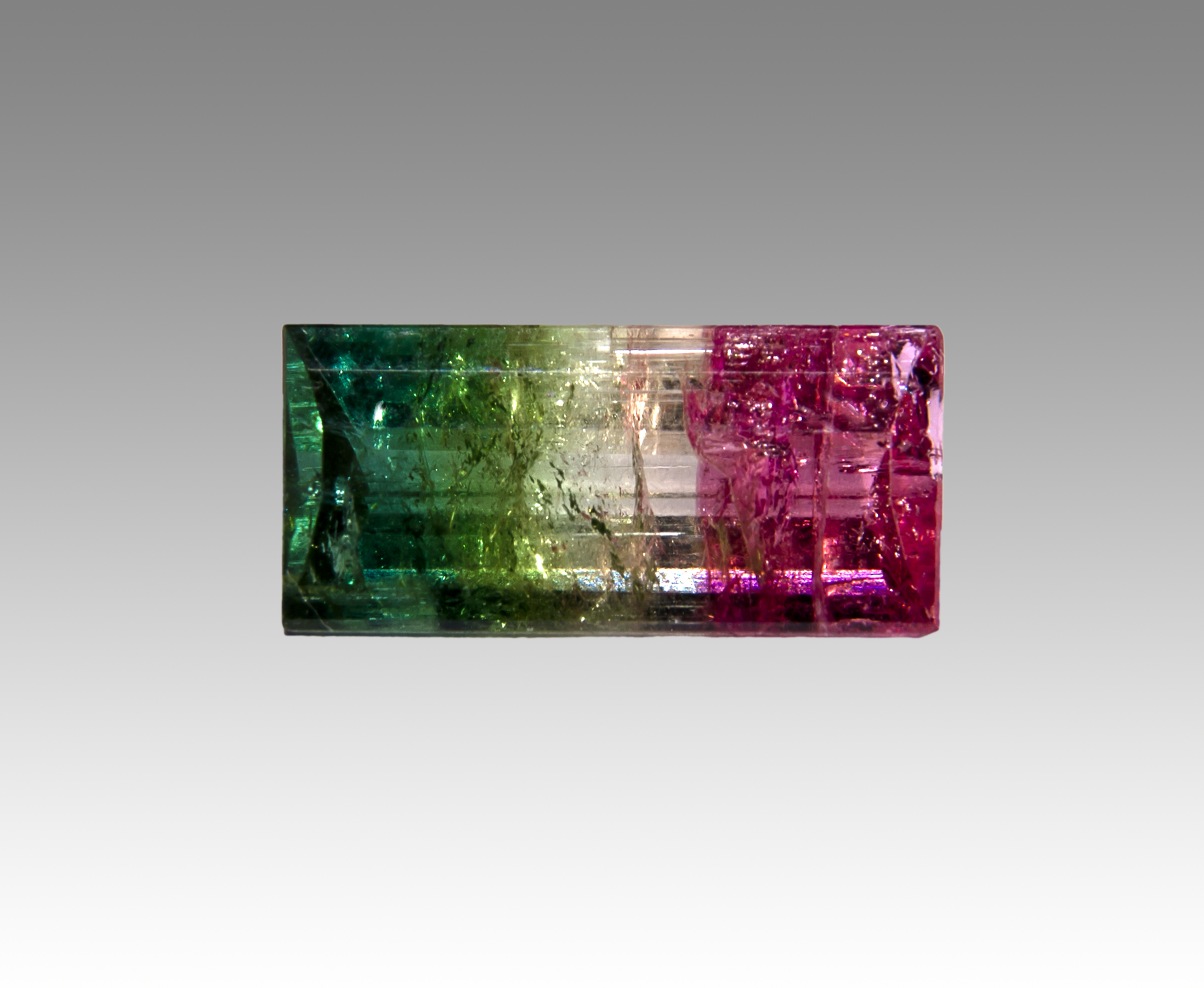 Elbaite - Cut Locality: Cruzeiro mine, São José da Safira, Doce valley, Minas Gerais, Southeast Region, Brazil Size:, 1.42 x 0.66 x 0.5 cm cm 4cts14